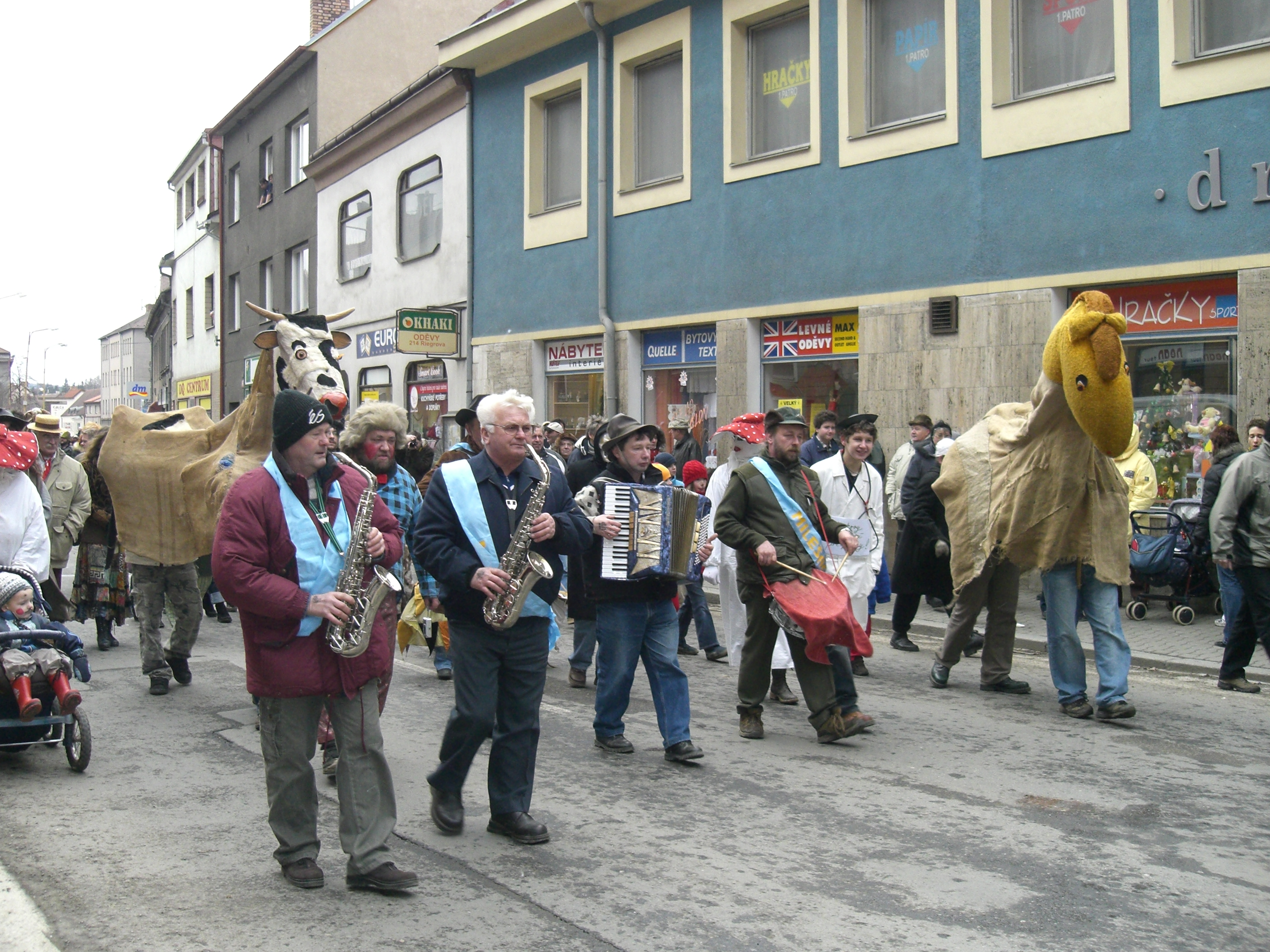 Masopust in Milevsko, Czech Republic 49°27′4.556″N 14°21′36.954″E / 49.45126556°N 14.360265°E